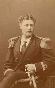 Anckers (Andersson), Nils Elias. F. 1858. D. 1921. Kommendör. I Kongostatens tjänst 1884-87. Lärare i minlära och matematik vid Sjökrigsskolan 1891-99. Etsare. Kungl. Flottan